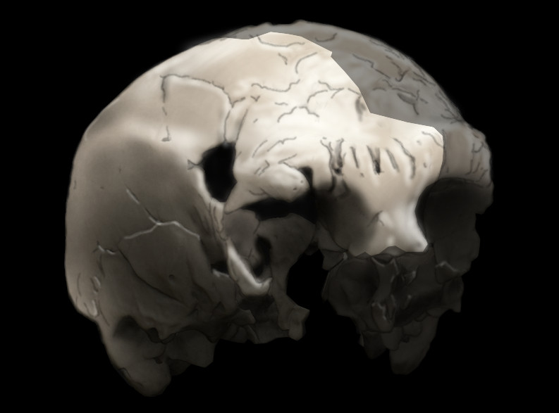 The Aroeira 3 cranium. The missing side in dark is guessed via virtually mirroring the preserved one. Hand-drawn, after Daura et al 2017.